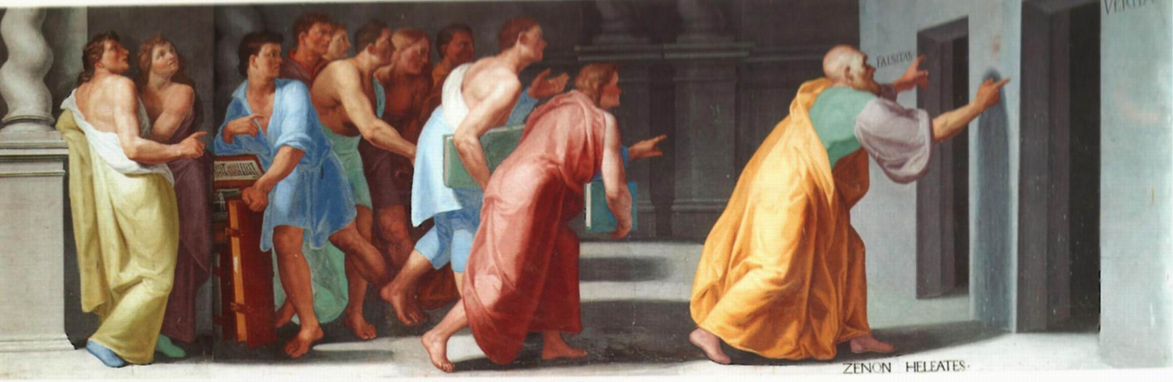 Zeno of Elea shows Youths the Doors to Truth and False (Veritas et Falsitas).